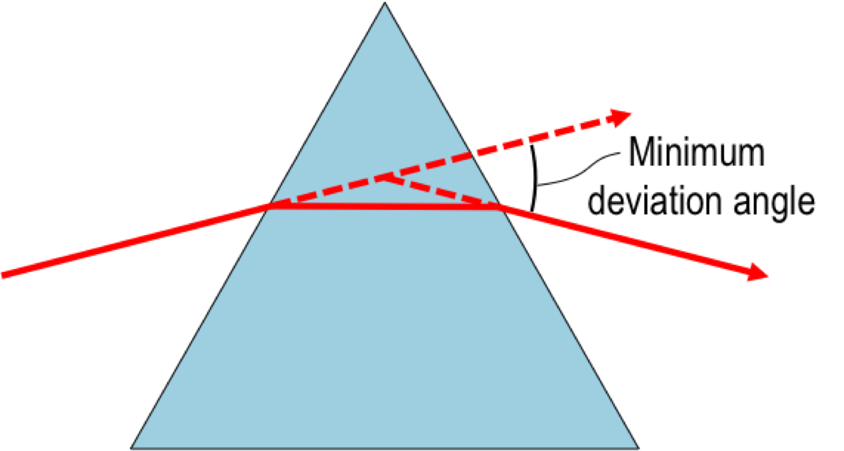 Diagram shows a light ray passing with minimum deviation through a prism